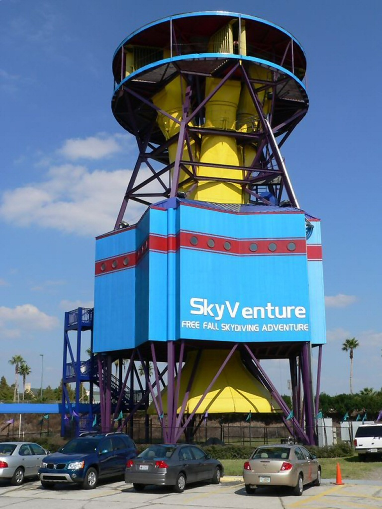 SkyVenture Orlando, a non-recirculating vertical wind tunnel. Taken originally for the Vertical Wind Tunnel article. Taken myself during visit to this tunnel.